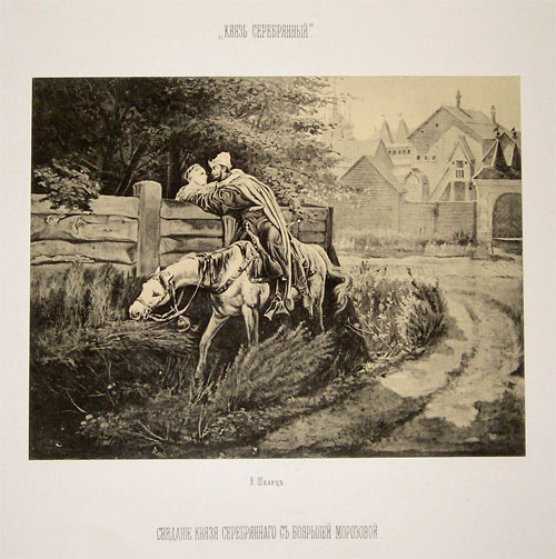 This is illustration by russian painter Vyacheslav_Schwarz to novel Prince Serebrenni by Alexei Konstantinovich Tolstoy. The name of this illustration - "Свидание князя Серебряного с боярыней Морозовой" (Date of Prince Serebrenni with Boyarynya Morozova) ru